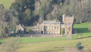 Kentchurch Court